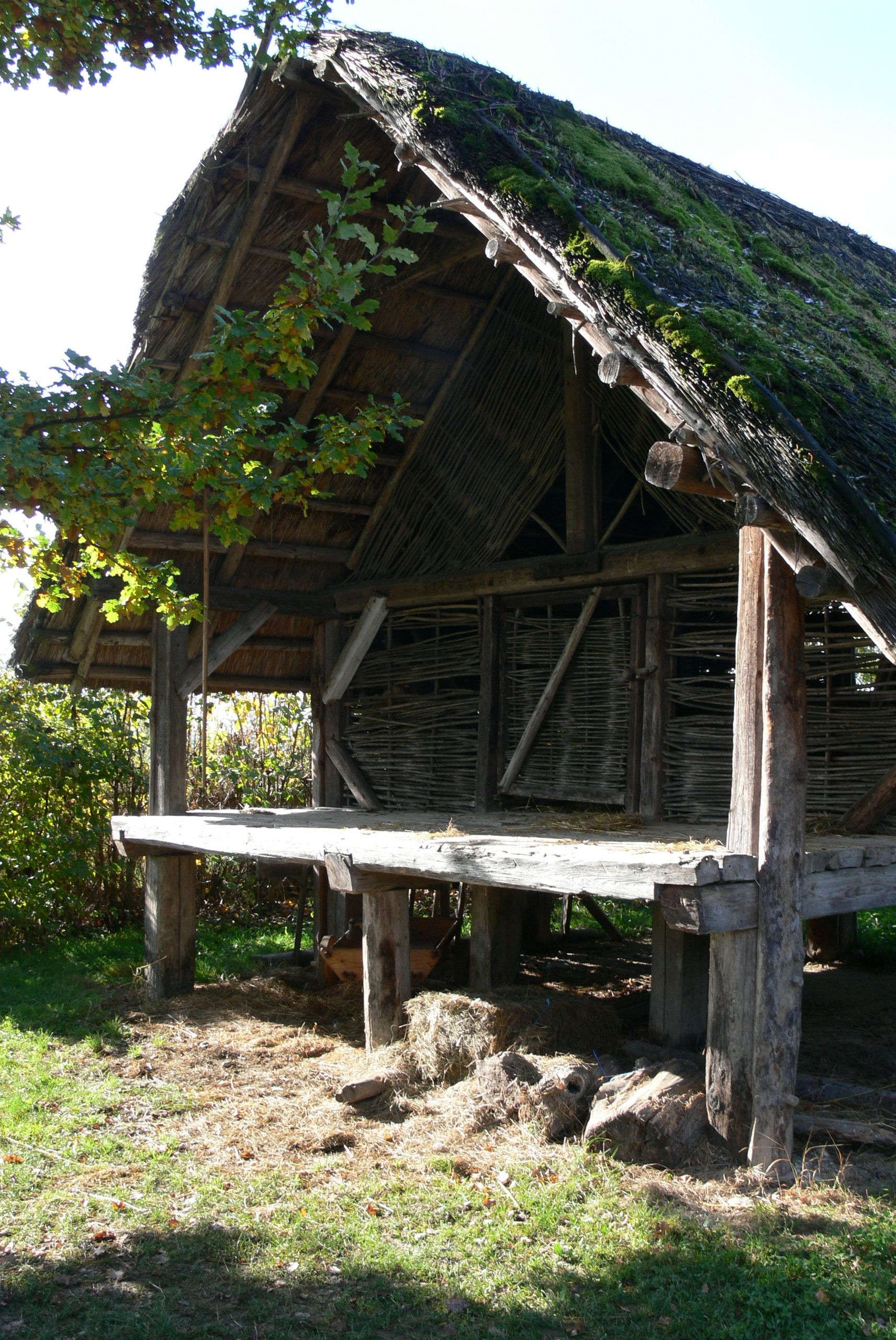 Celtic village in Mitterkirchen ( Upper Austria ). Reconstruction of a Celtic granary.